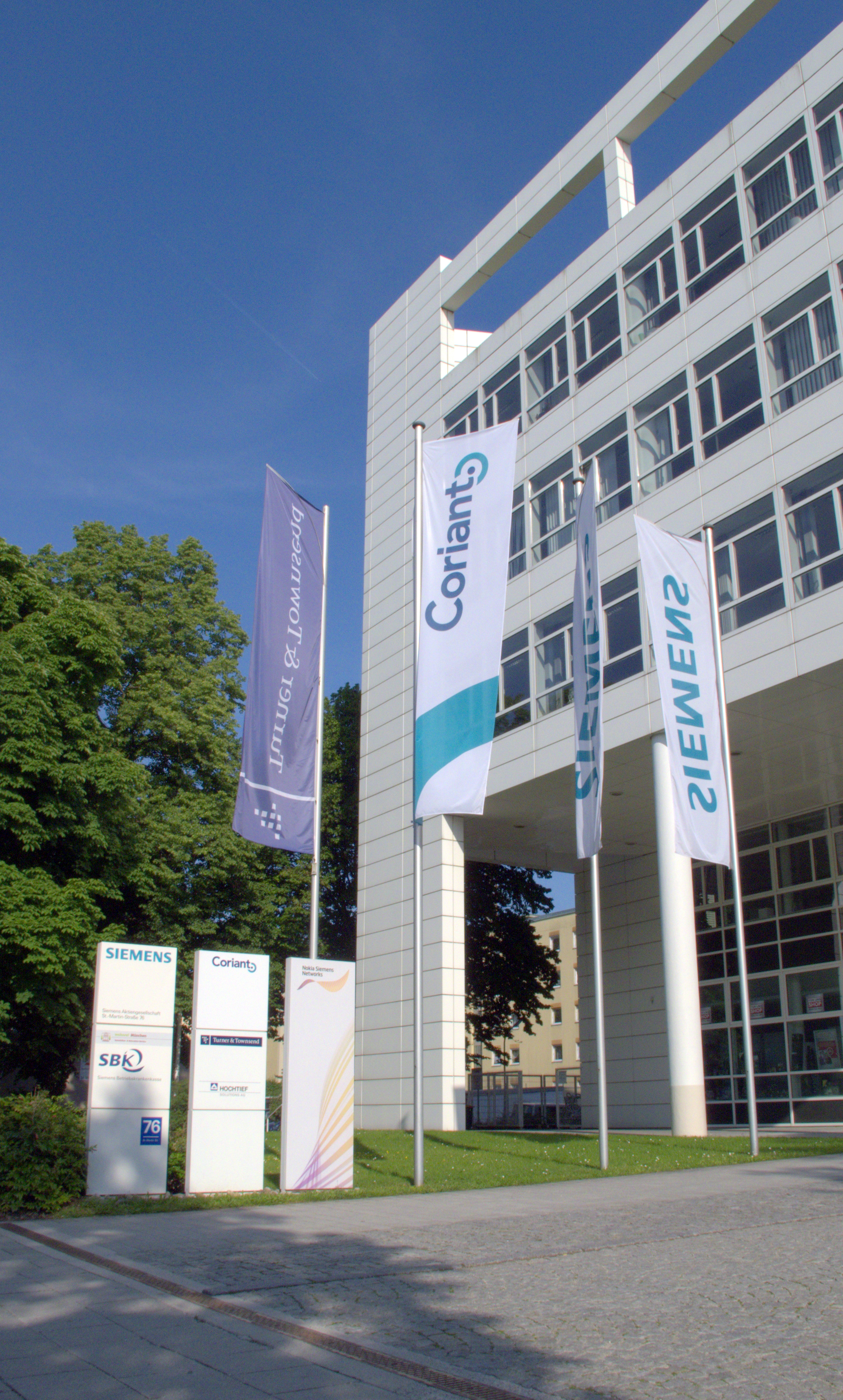 Munich Siemens St. Martin Street Campus - North Entrance